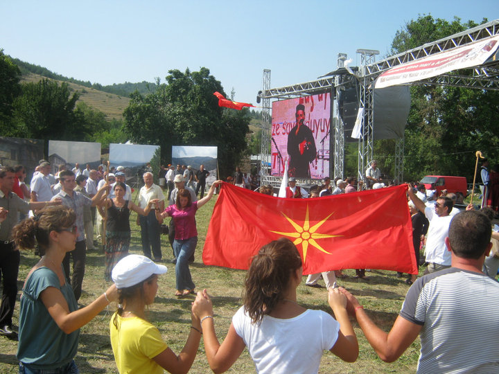 moskopole 2010 macedonians/armans/aromanians/vlachs